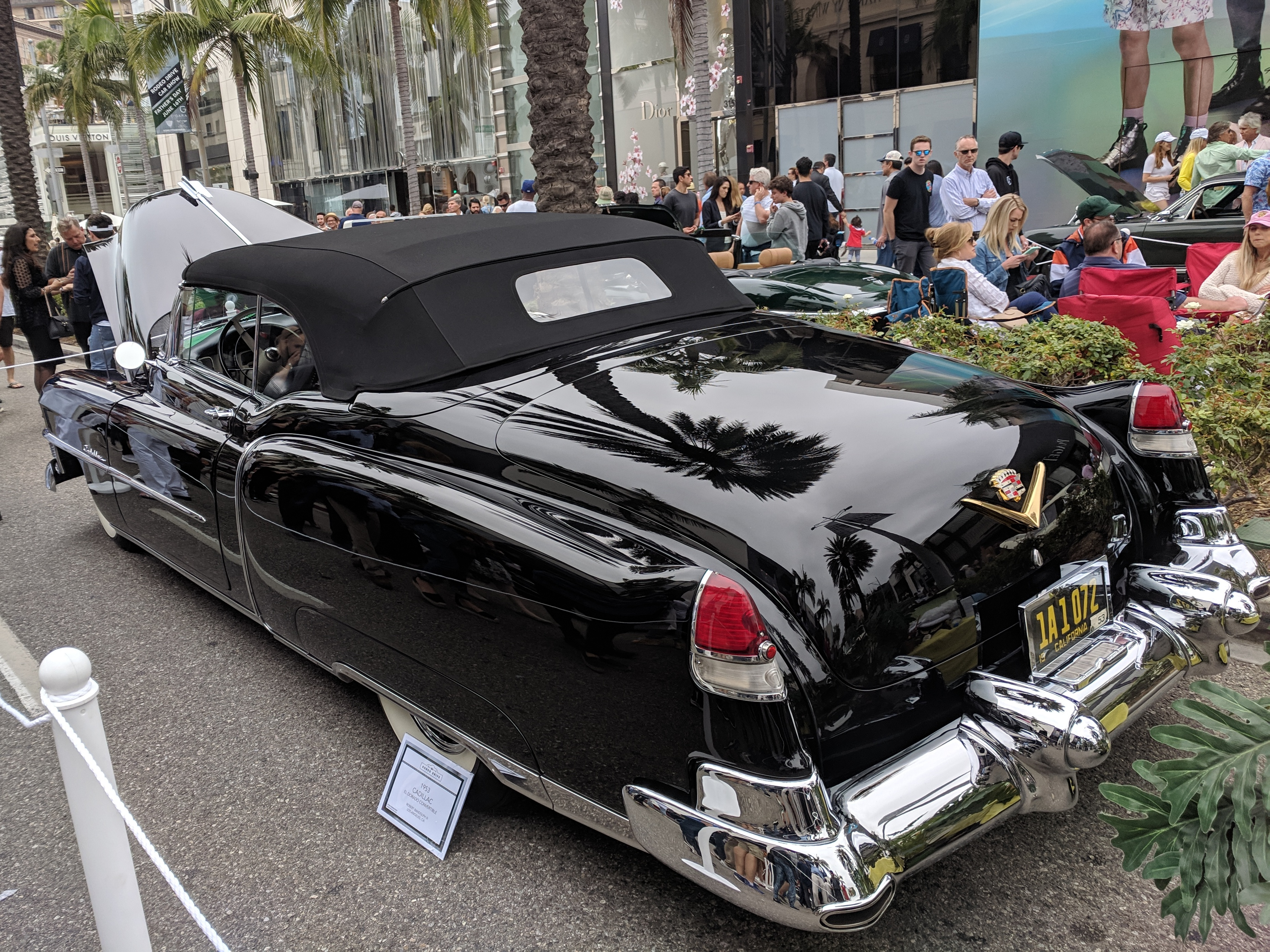 Taken at Beverly Hills Car Show June 16, 2019